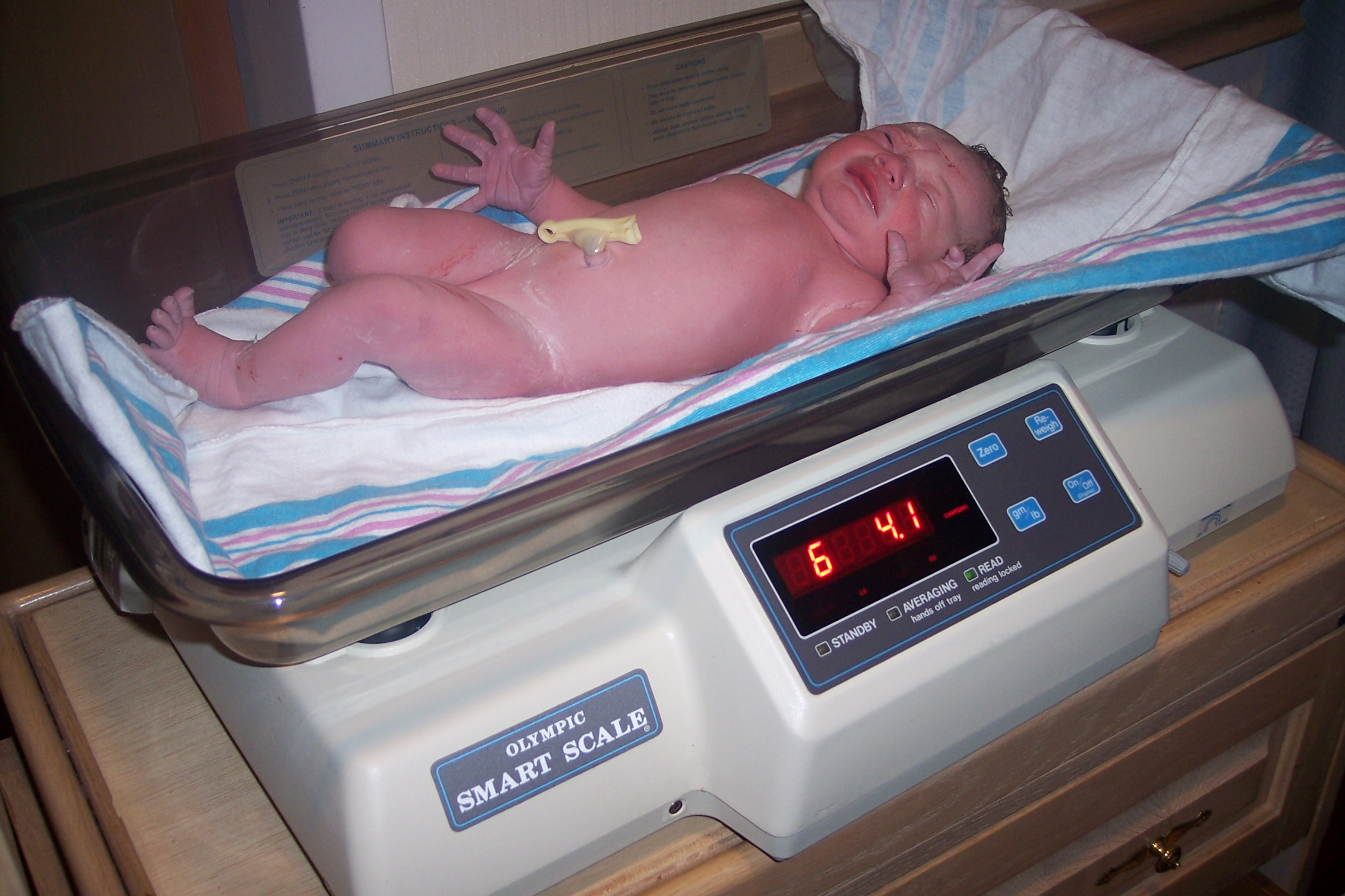 Baby being weighed after birthNathan being weighed